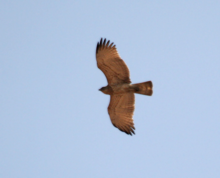 Short-toed Eagle Circaetus gallicus in Kinnerasani Wildlife Sanctuary, Andhra Pradesh, India.